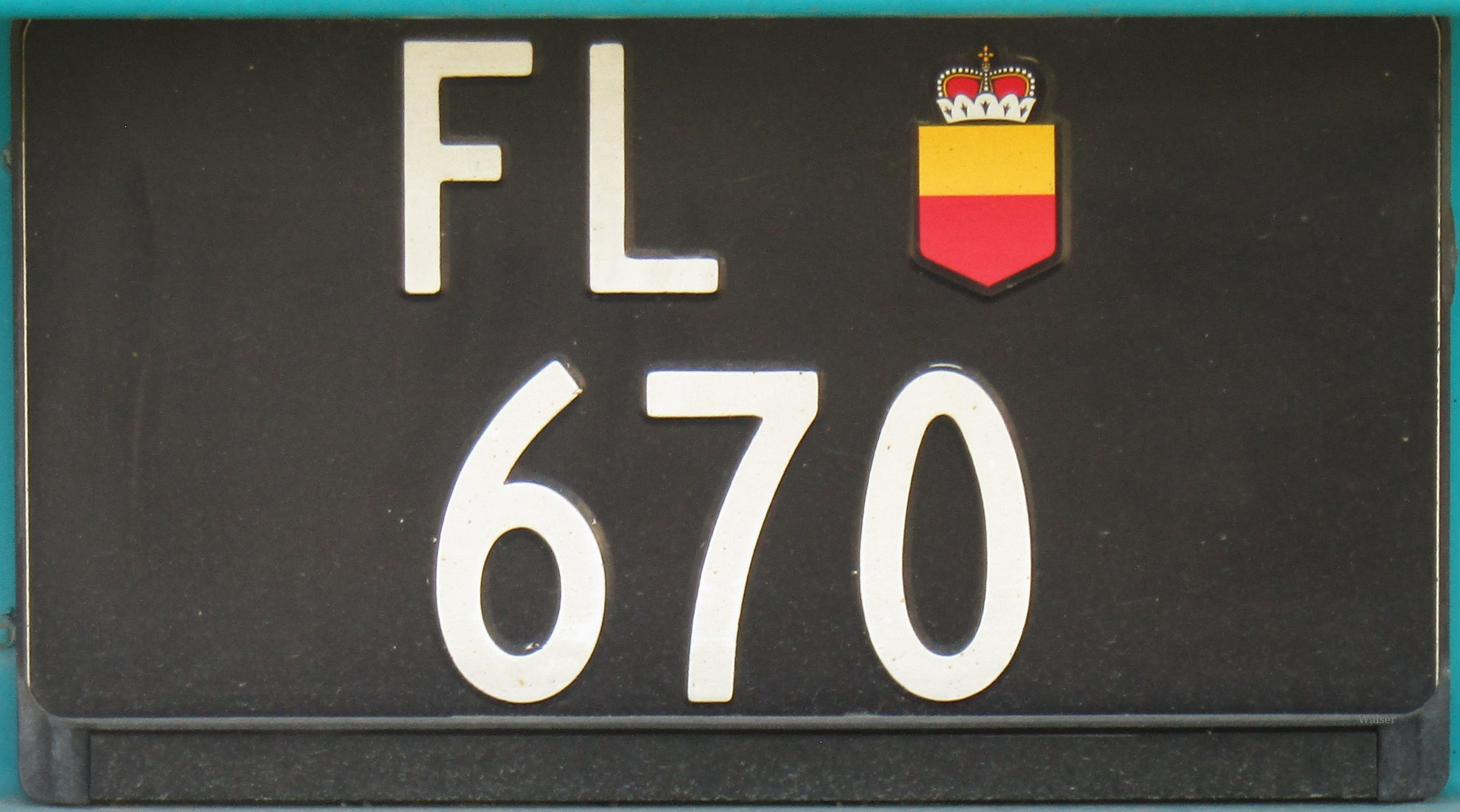 Liechtenstein license plate for trailers. Numbers from FL 300 to FL 1999 and from FL 65000 to ~ FL 67900 (May 2020). High format 30 x 16 cm.